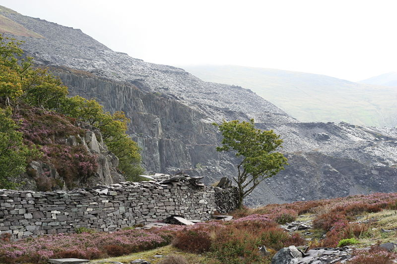 Dinorwig Quarry, Gwynedd